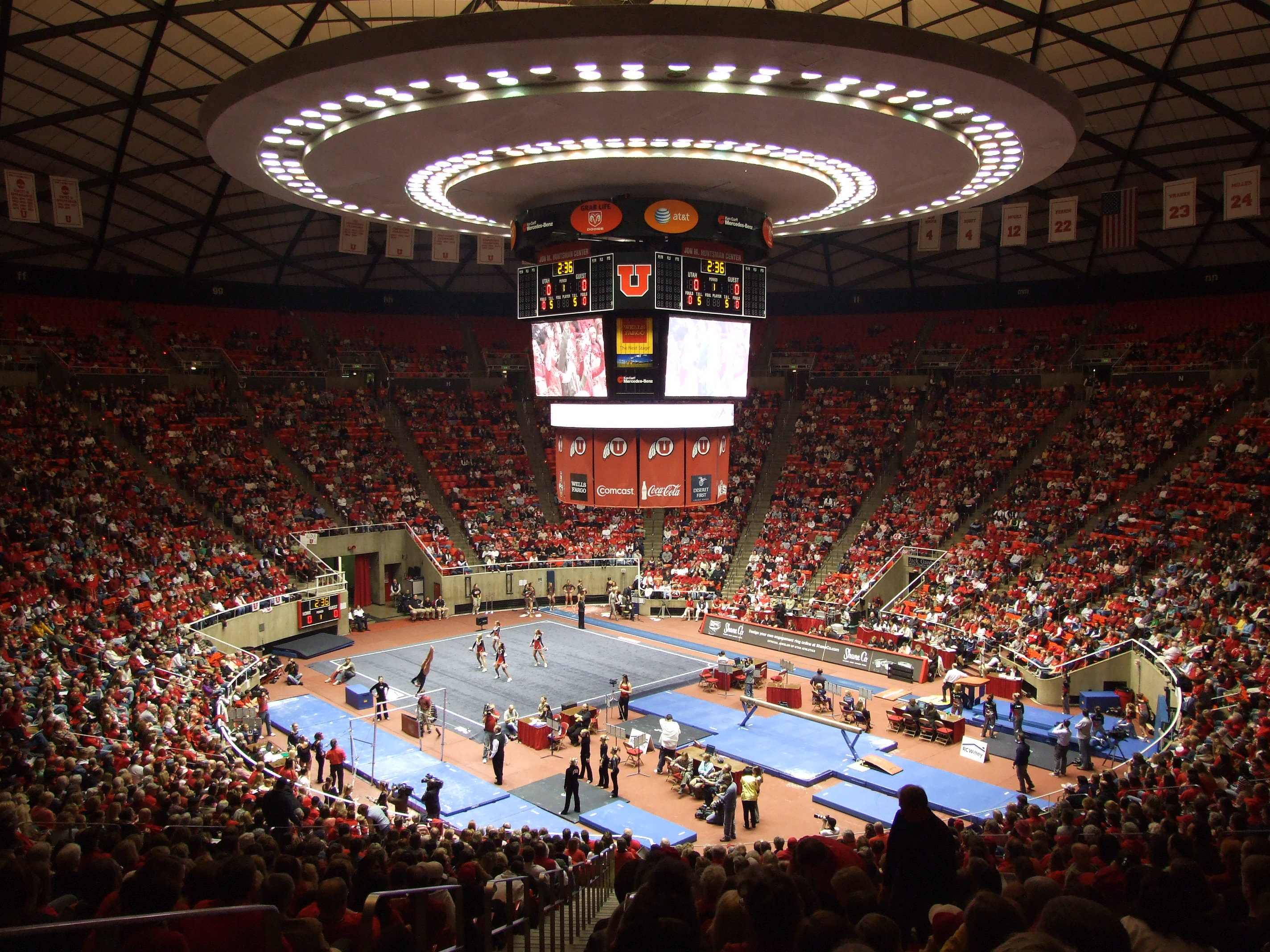 Photo of the inside of the John M. Huntsman Center during a gymanstics meet.